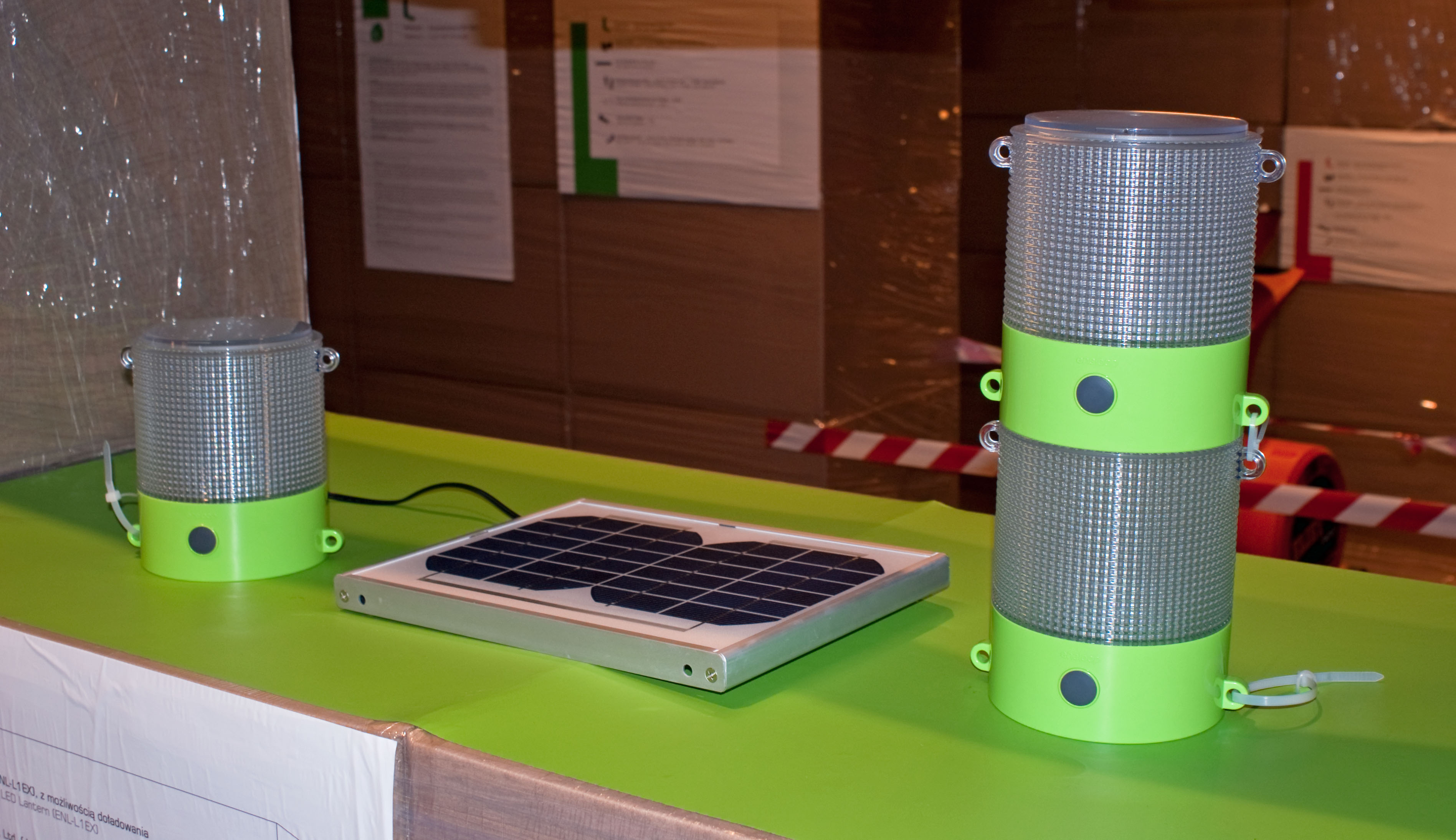 "eneloop" Rechargeable LED Lantern (ENL-1EX) by Sanyo. "21 design stories" – exhibition at Institute of Industrial Design in Warsaw.